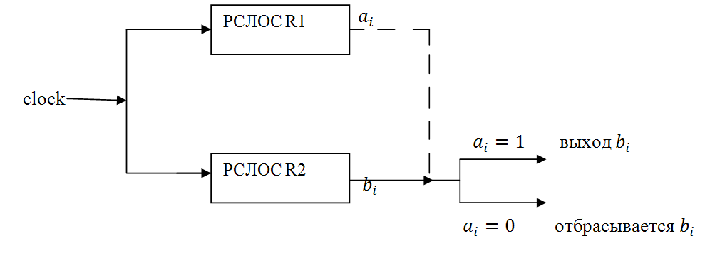 Clock Generator